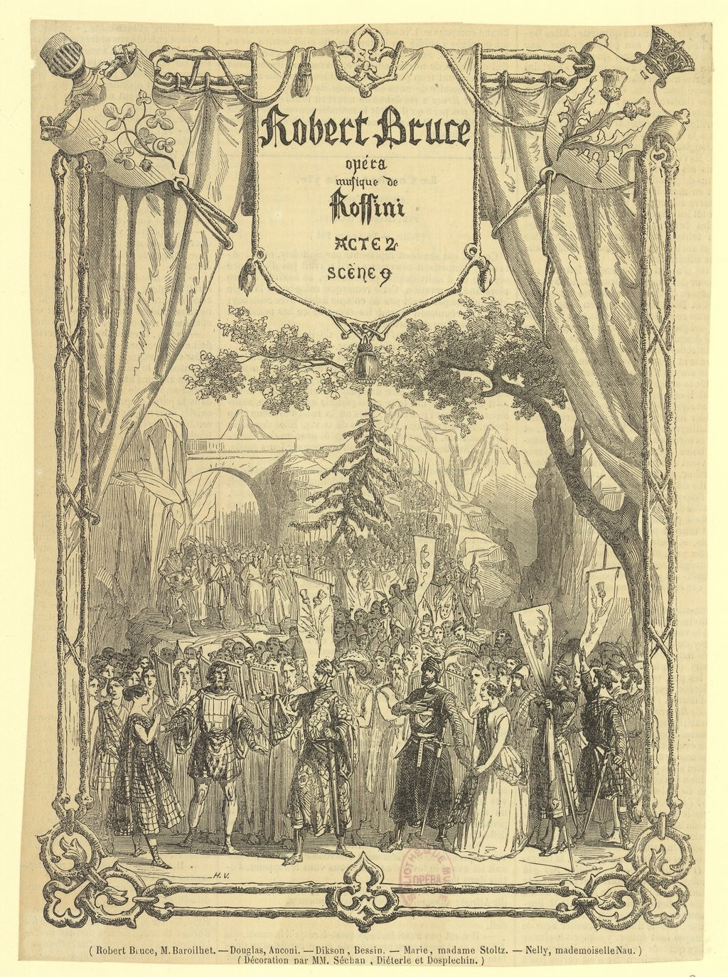 Rossini - Robert Bruce - Paris 1846 - acte 2, scène 9 - H.V. Paris : Théâtre de l'Opéra-Le Peletier, 30-12-1846 1 f. ; 24 x 17,5 cm (im.)